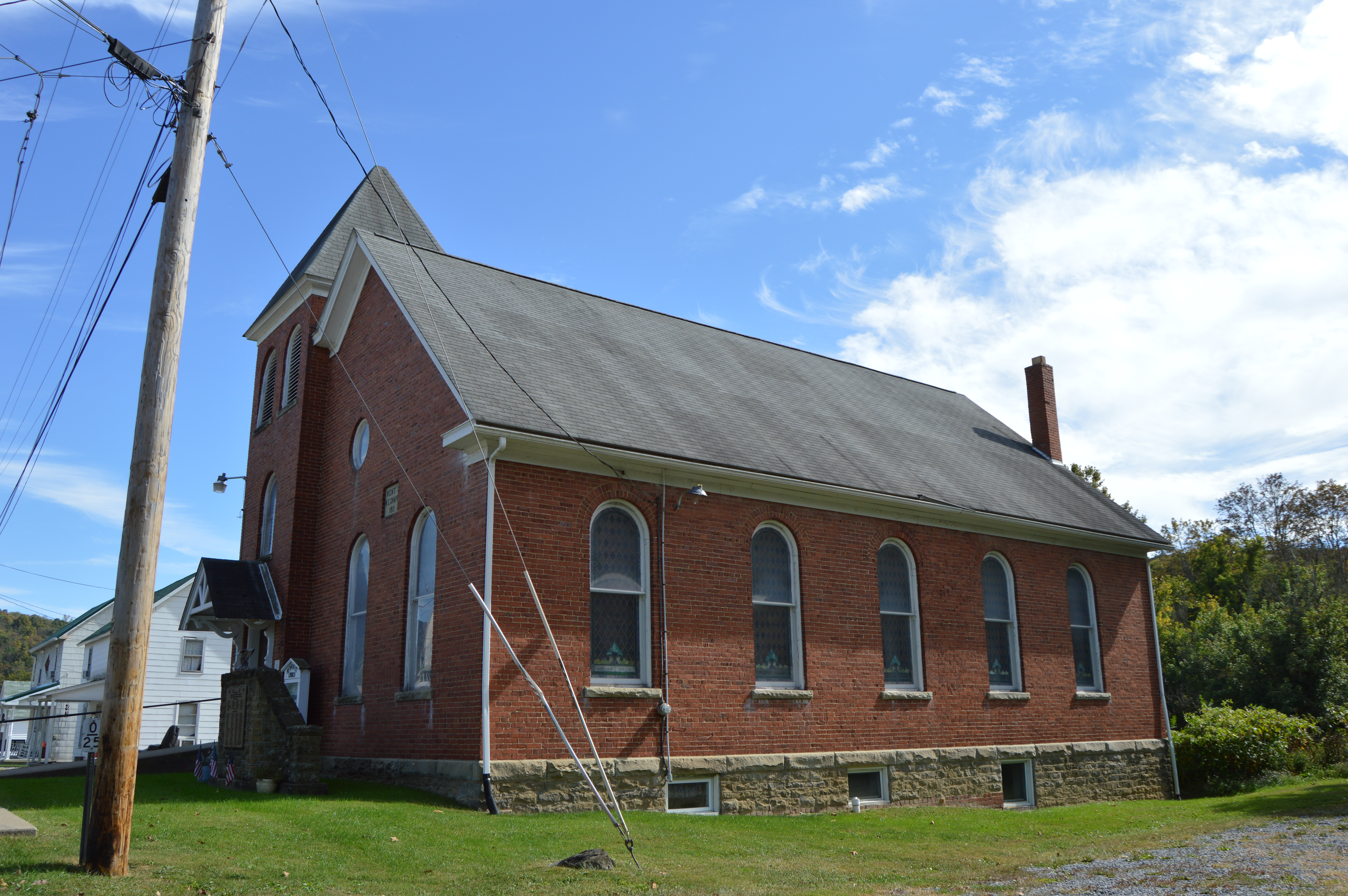 Front and western side of Kents Chapel United Methodist Church, located on Oak Forest Road in Brave, Pennsylvania, United States. It was built in 1911.